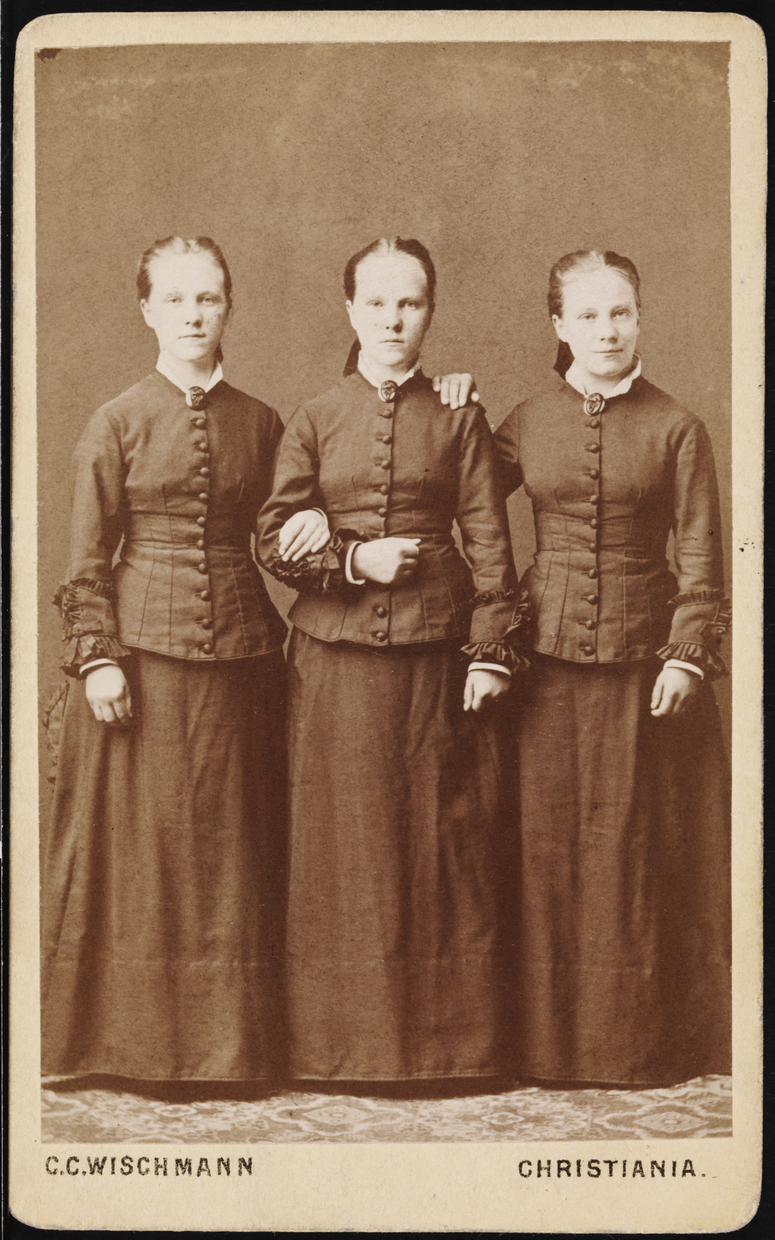 Motiv / Motif: Visittkort / Carte de visite Fotograf / Photographer: Carl Christian Wischmann (1819-1894) Sted / Place: Oslo Eier / Owner Institution: Nasjonalbiblioteket / National Library of Norway Lenke / Link: Bildesignatur / Image Number: bldsa_FA0864